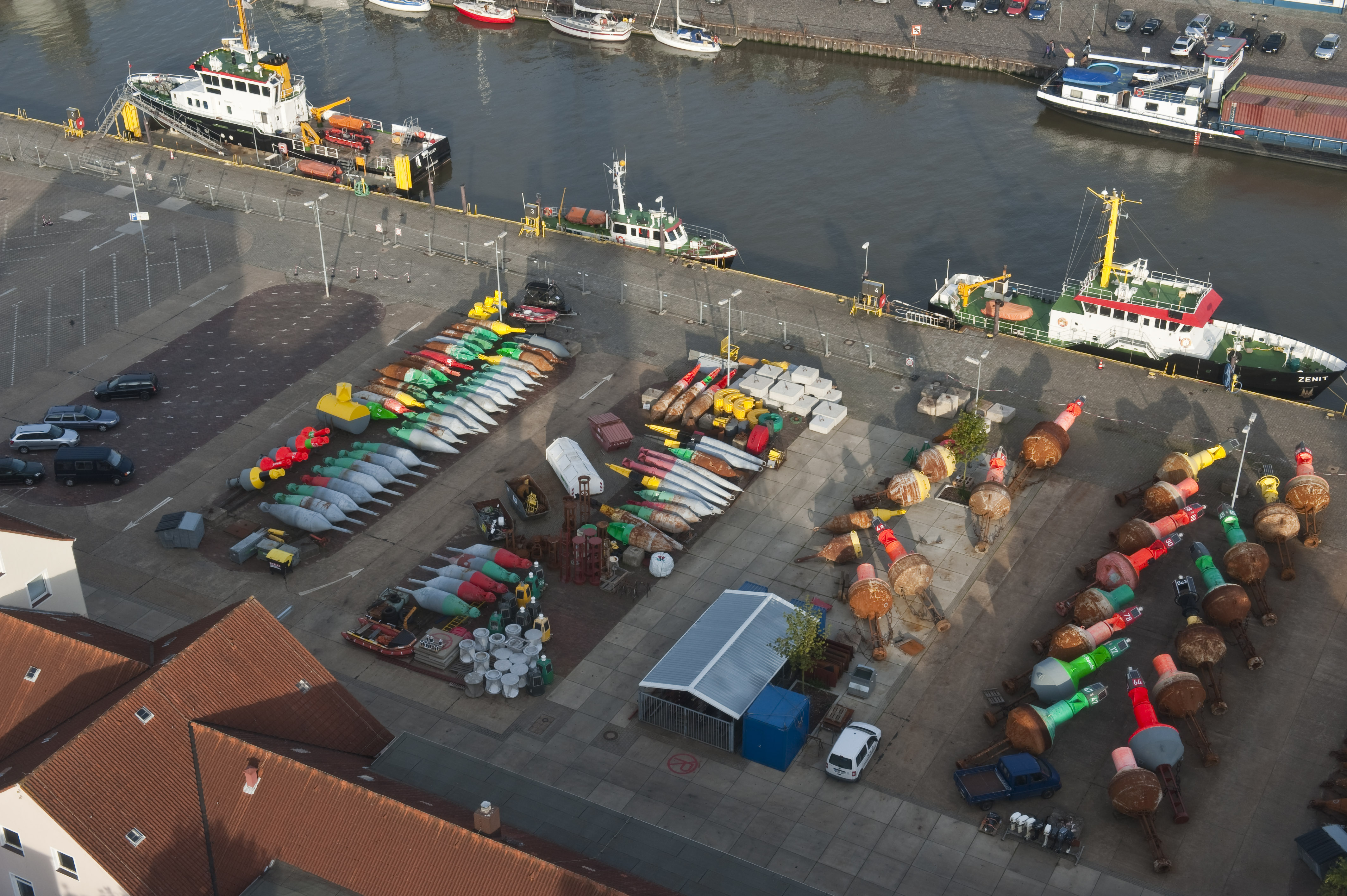 Buoy depot, WSA (Waterways and Shipping Authority) of Bremerhaven. View from the microwave tower.